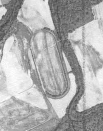 I excerpted a 1938 U.S. Government aerial photograph for this image. It is of the Occoneechee Race Track in Hillsborough, North Carolina, one of the first NASCAR tracks.